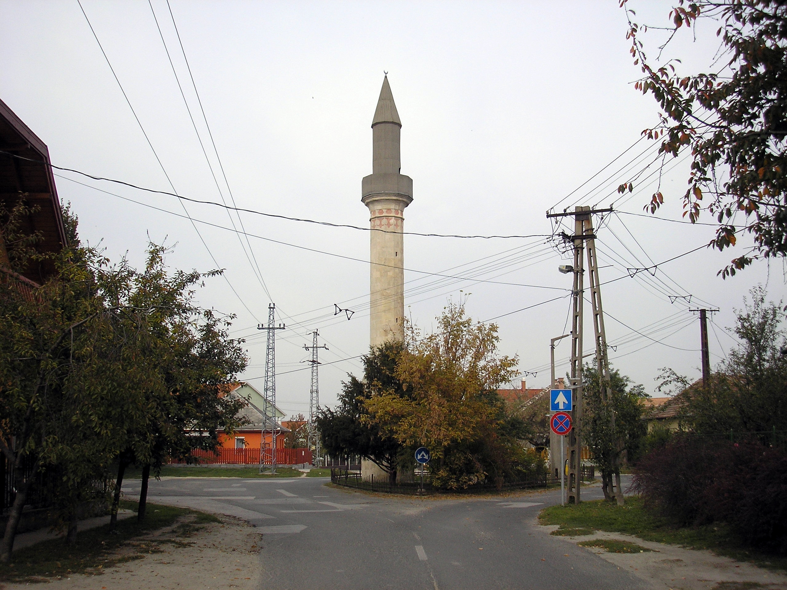 Minaret in Erd (Hungary)